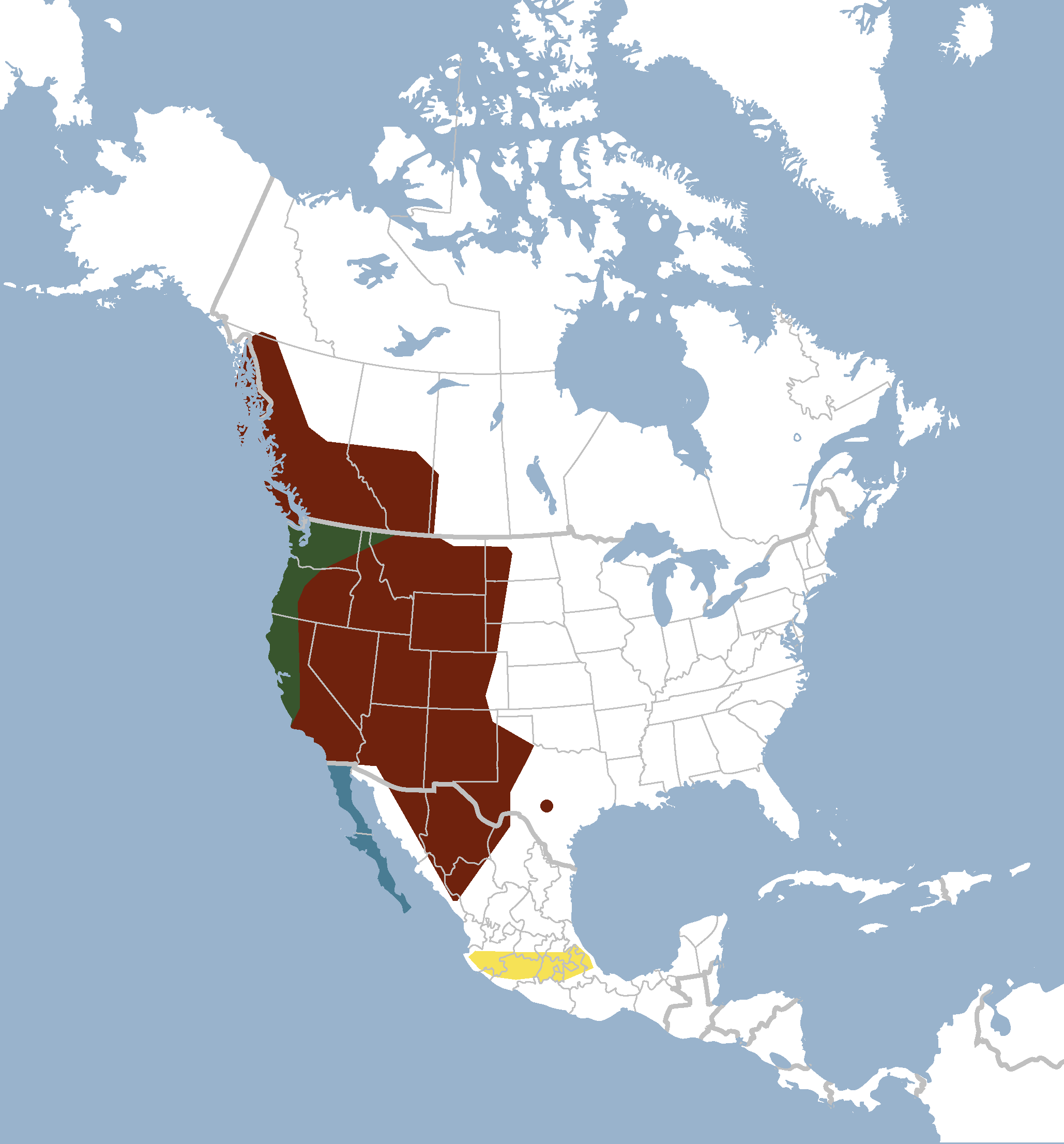 Geographical distribution of Myotis volans according to Warner & Czapleski, 1984